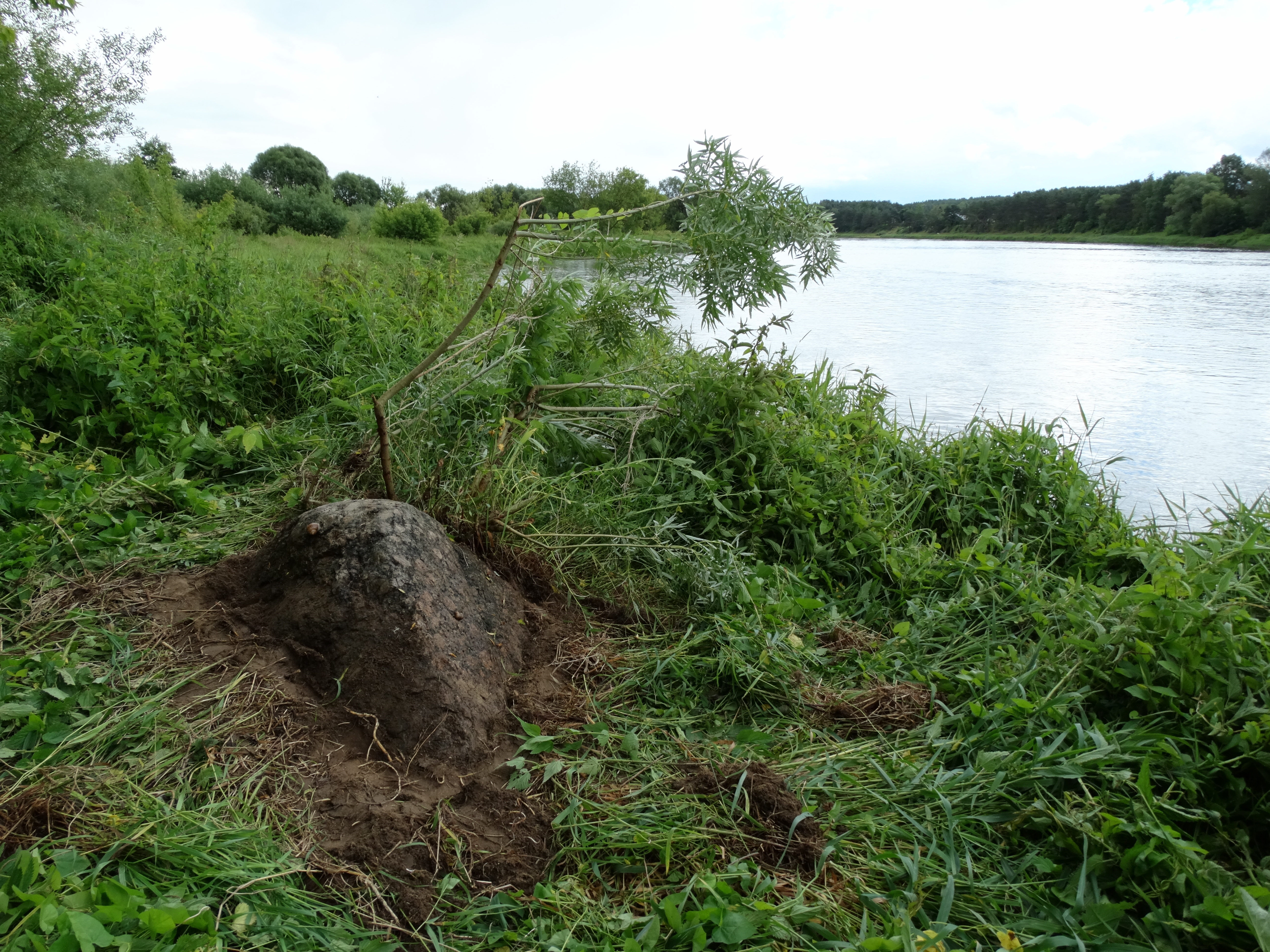 Boulder Valiūnas by Neris river, Batėgala, Jonava district, Lithuania